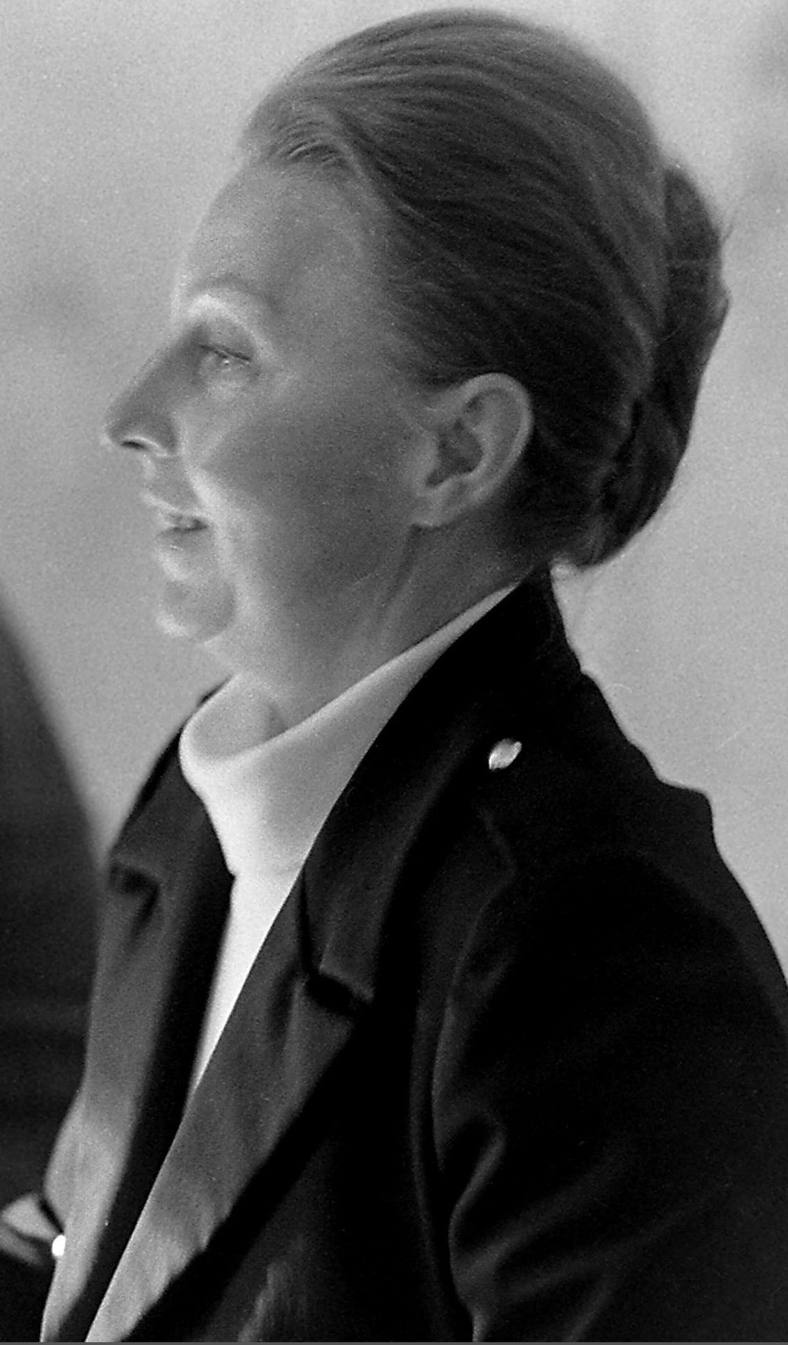 Trude Marzik reading from 'Aus der Kuchlkredenz'. Reading was during the week following HC Artmann's honours. (Nikon 85mm lens; available light, TRI-X, Microdol).